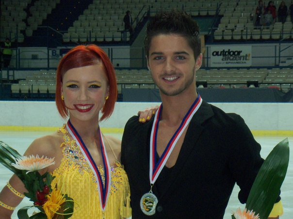 Tiffany Zahorski & Alexis Miart, Ostrava, Czech Republic JGP 2010